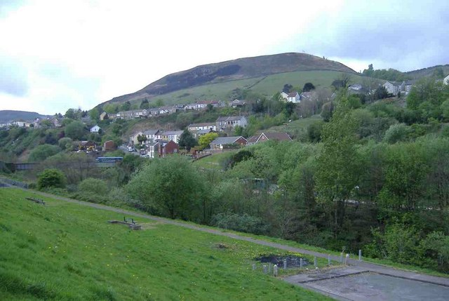 Trealaw, viewed from Dinas